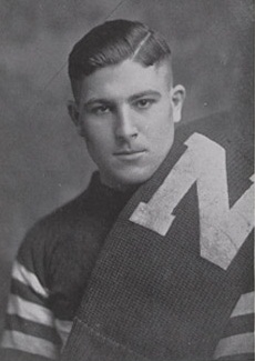 Nebraska Cornhuskers football All-American Ernest Hubka